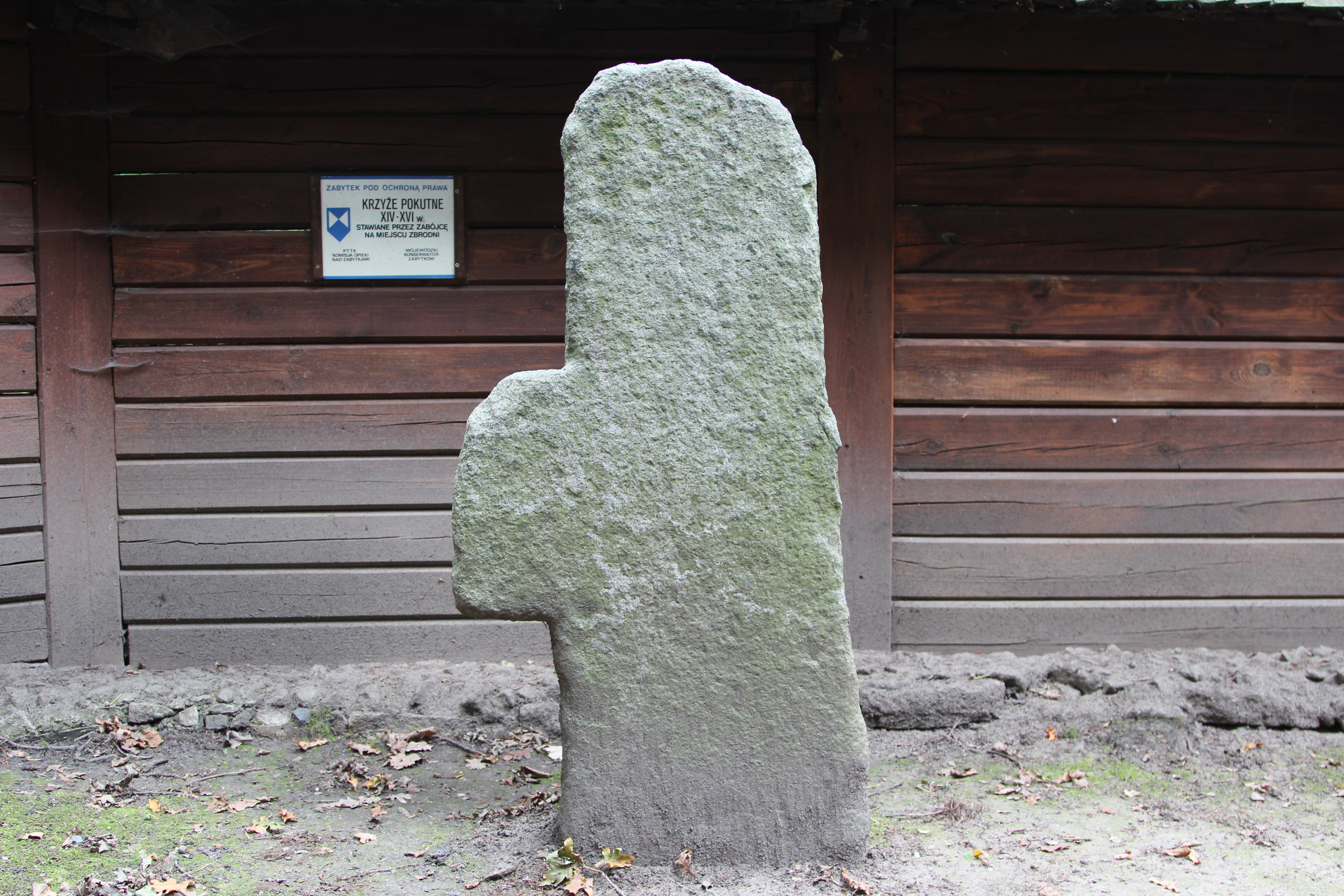 Stone cross from Saint John of Nepomuk church in Szczytnicki Park